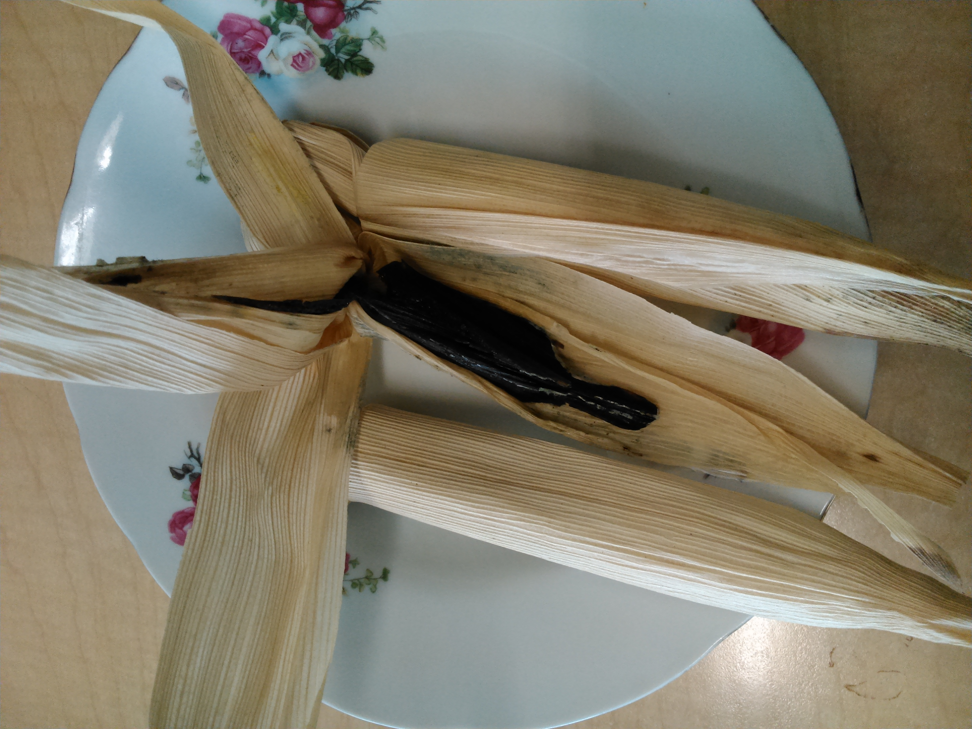 Corn husk is used to wrap wajik. Yogyakarta, Indonesia.